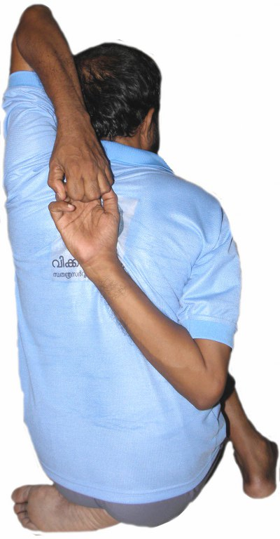 Cow face pose2